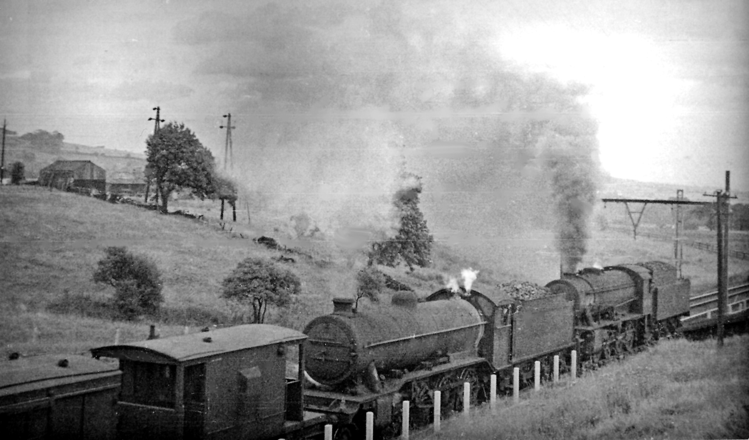 Two 2-8-0s banking a westbound freight up Worsborugh Bank towards West Silkstone Junction. View eastward, towards Wombwell Main Junction and Wath Yard: ex-GC Barnsley avoiding-line. Gresley O2/3 2-8-0 No. 63975 (built 11/42 as 3845, withdrawn 11/63) has the assistance of ex-WD 2-8-0 No. 90709 banking the freight headed by an O4 (shown in SE3004 : Two 2-8-0s banking a westbound freight up Worsborough Bank towards West Silkstone Junction). (See SE3004 : Westbound coal train on Worsborough Branch for further details).